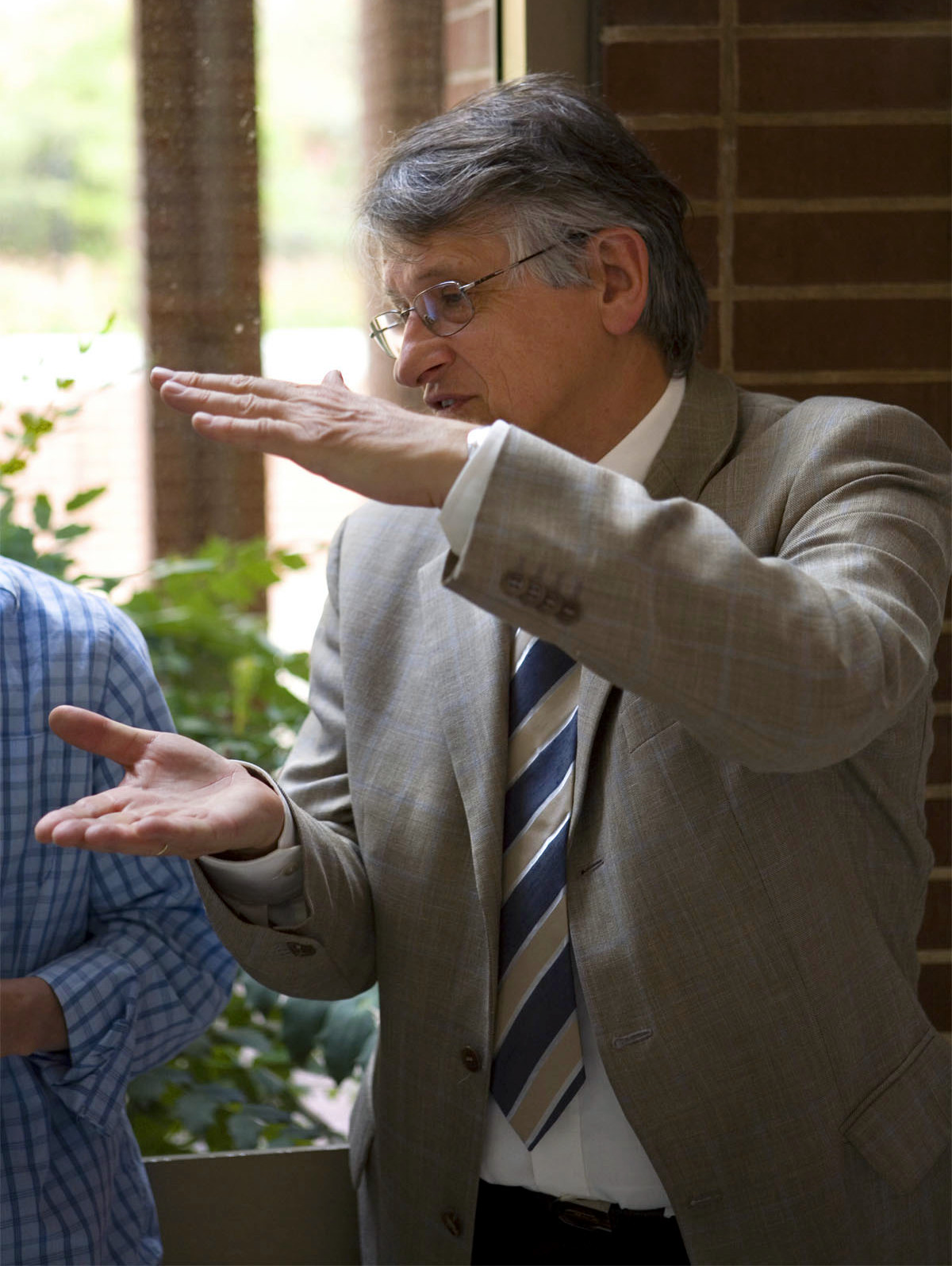 A picture of Dr. Von Klitzing explaining the Quantum Hall Effect at Georgia Tech